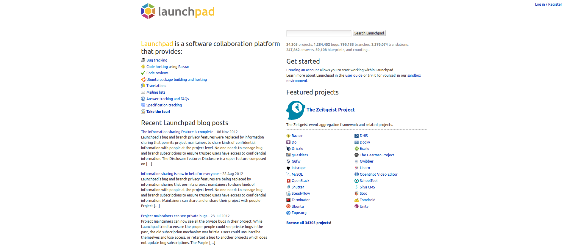 Homepage screenshot